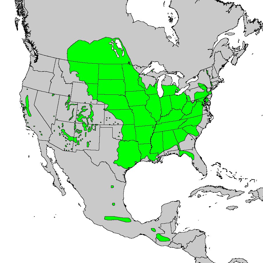 Range map of Manitoba Maple (Acer negundo)